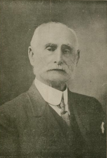 Benjamin Rogers, 9th Lieutenant Governor of Prince Edward Island